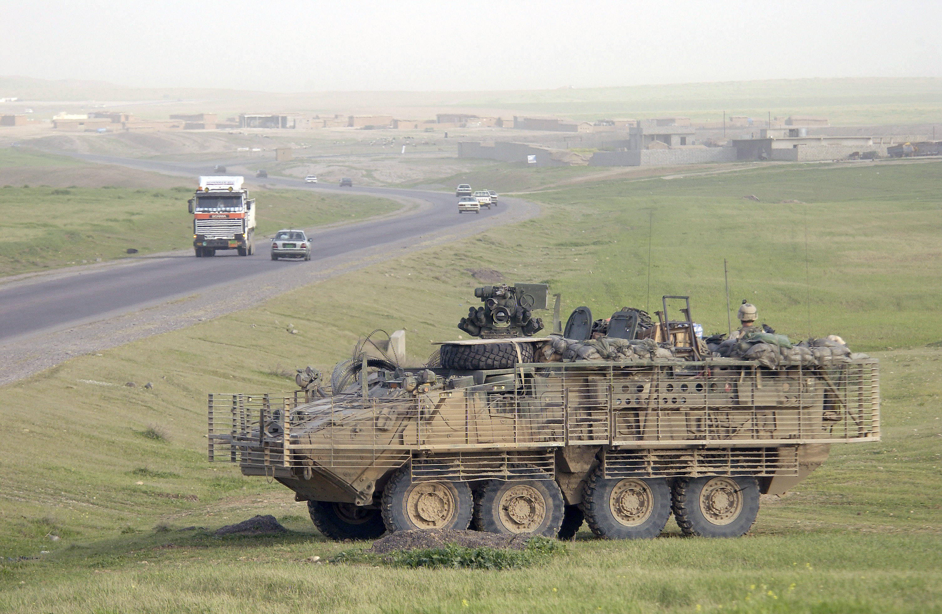 A US Army (USA) M1126 Stryker Infantry Carrier Vehicle (ICV) with Slat Armor cage from the 2nd Platoon (PLT), Bravo (B) Company (CO), 1st Battalion (BN), 5th Infantry (INF), 25th Infantry Division (ID) (Stryker Brigade Combat Team (SBCT)), in position while on patrol near Mosul, Iraq. The cage detonates anti-tank shaped charges away from the vehicle. The SBCT is assigned to Task Force Freedom supporting Operation IRAQI FREEDOM. Location: MOSUL, DAHUK IRAQ (IRQ)